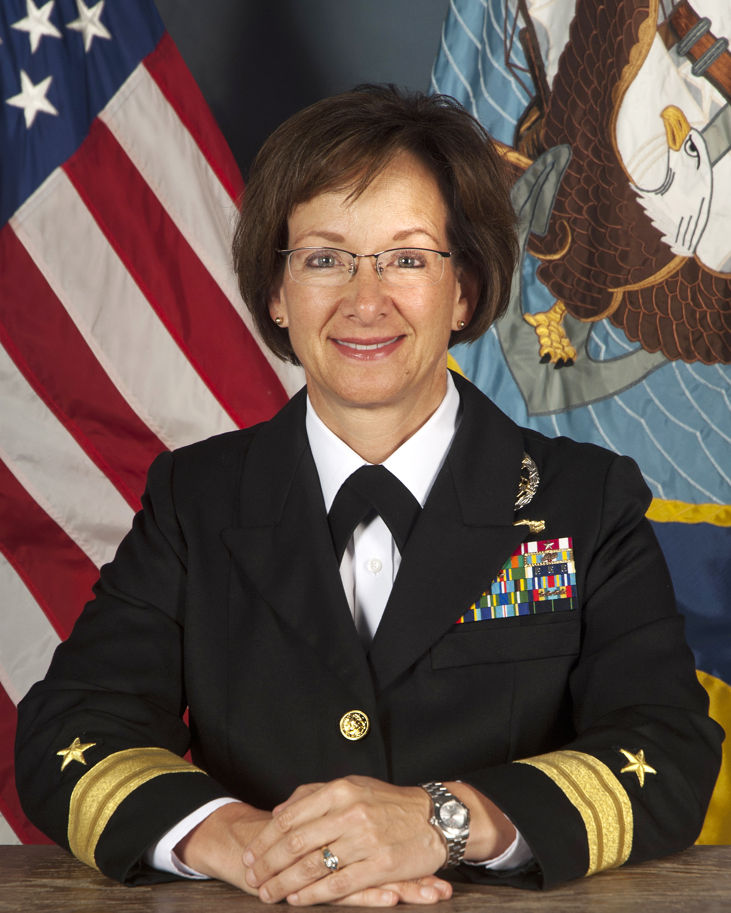 Rear Adm. Lisa M. Franchetti